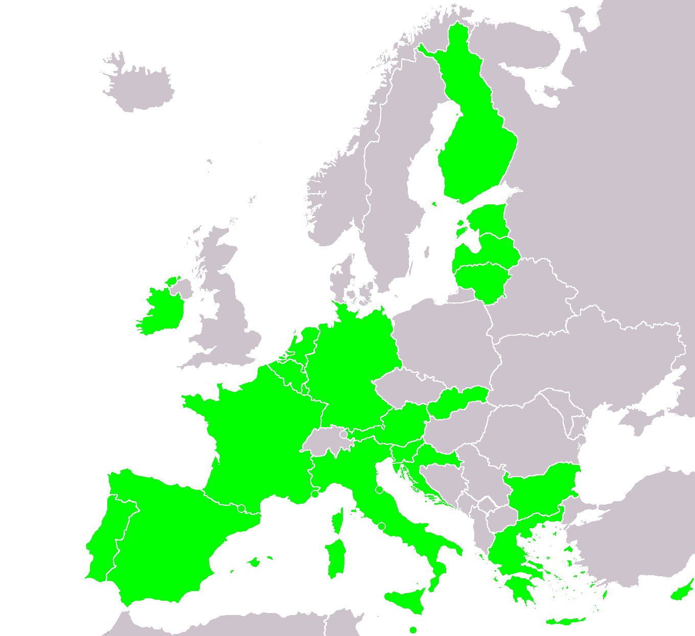 Color-coded map of eurozone countries which issued €2 commemorative coins. See also Image:European Union commemorative 2 euro coins by number.png.